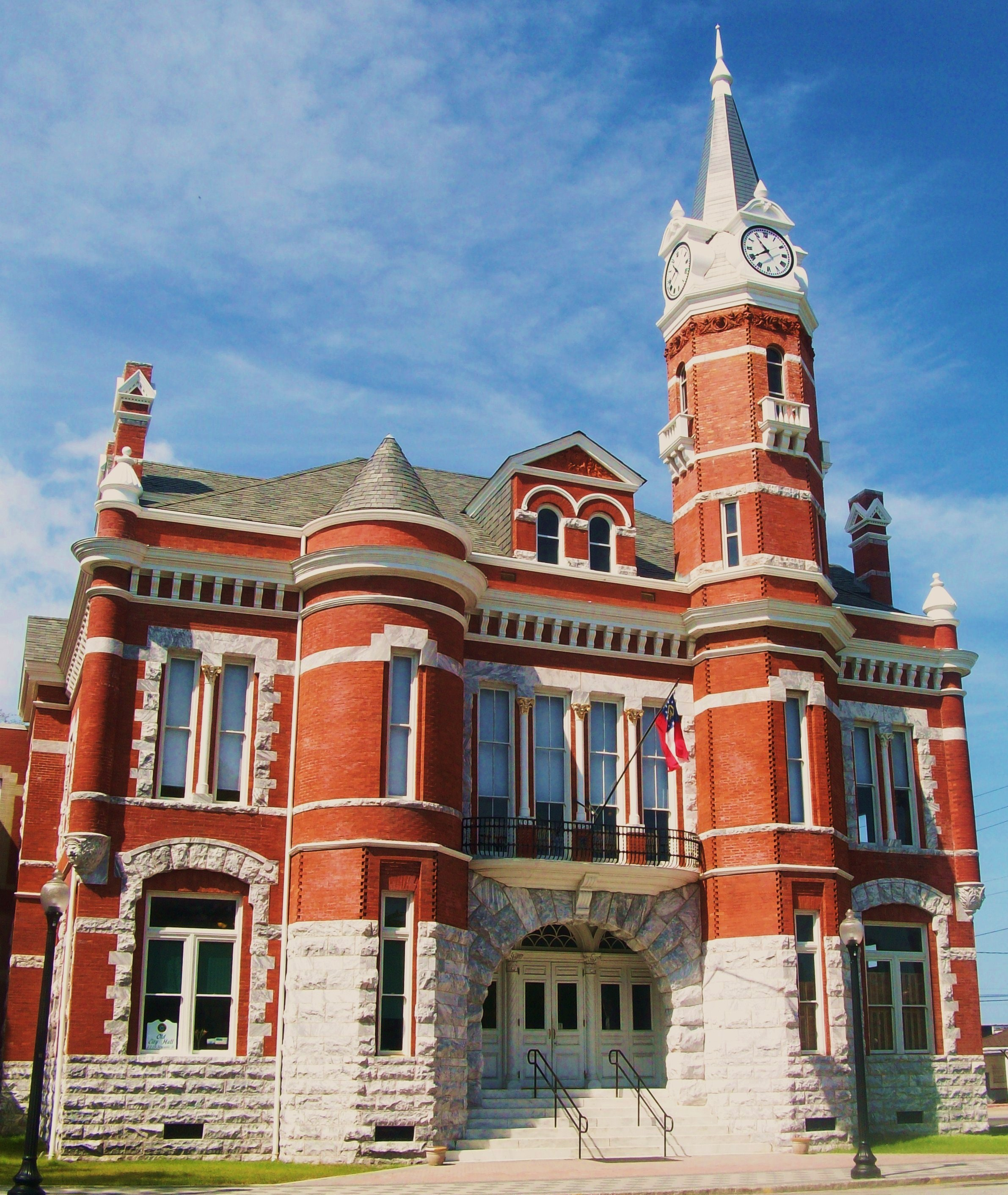 Built at a cost of $33,000, construction of the Brunswick City Hall began in 1886 and was completed in 1889, with the installation of the clock tower in 1893. After temporarily closing for a restoration, Old City Hall reopened in 2004 after the transfer of the seat of city government to a newer City Hall on Gloucester Street. The architectural style is "Richardsonian Romanesque", with Queen Anne parallels. Massive in stature, with the unusual addition of Italianate brackets, Romanesque architecture was the style of choice for the majority of public buildings built in the United States during this period. Elaborate terra cotta friezes decorate the Old City Hall clock tower and side entries, while the corner columns are adorned with gargoyles.